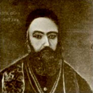 Grigore Maior OSBM (1714–1785), Bishop of the Diocese of Făgăraş of the Romanian Greek Catholic Church from 1772 to 1783.